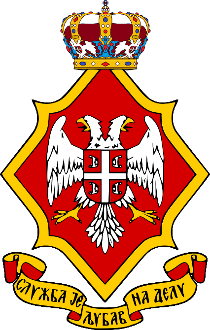 Coat of arms of Elizabeth Karadjordjevic Srpski (latinica): Grb Jelisavete Karađorđević